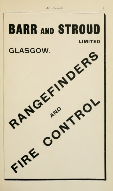 Advertisement for Barr and Stroud in Brassey's Naval Annual 1915, advertising their rangefinders and fire control systems for artillery and warships.